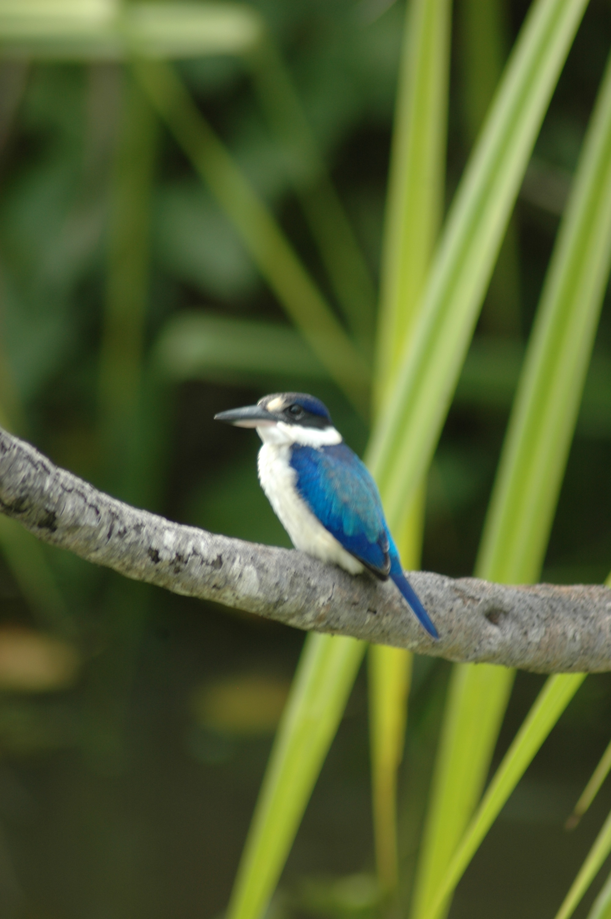 Forest Kingfisher in Kakadu National Park